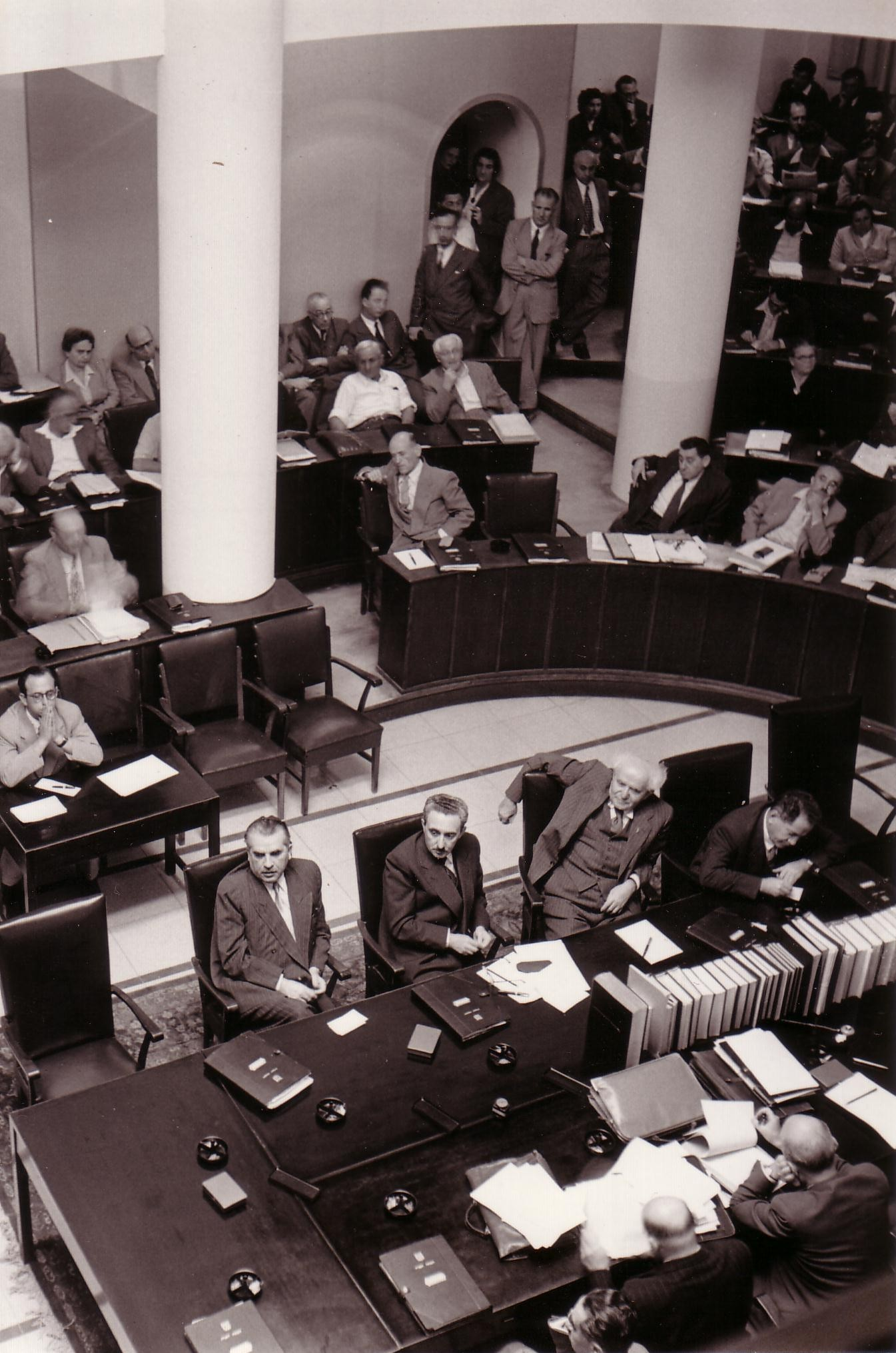 Knesset's assembly hall in Frumin House, 1952